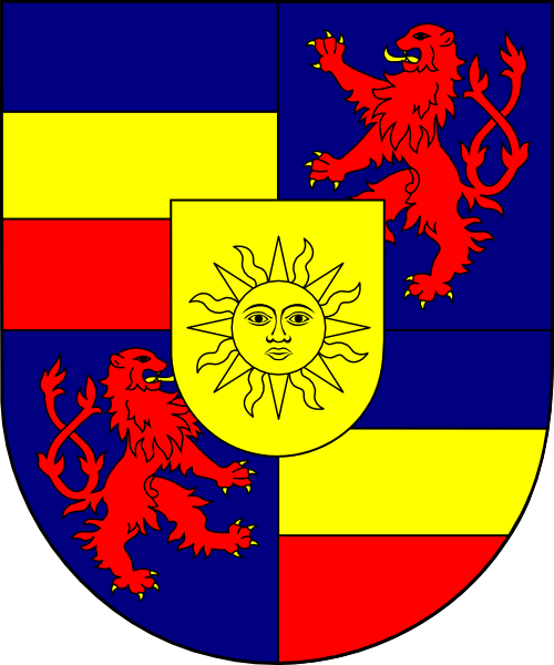 Coat of arms (shield only) of Franz Anton Marxer, auxiliary bishop of Vienna (1748 - 1775). Based on the portrait on postage stamp issued on 06-06-1974 (Liechtenstein)